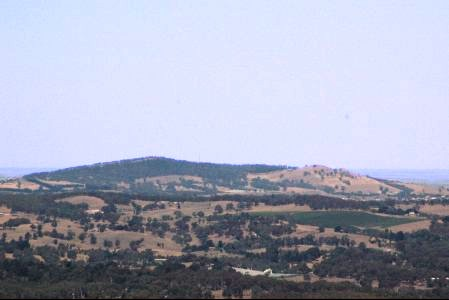 Photo of the Mount Barker Summit (South Australia) taken from the fire tower on Mount Lofty Summit